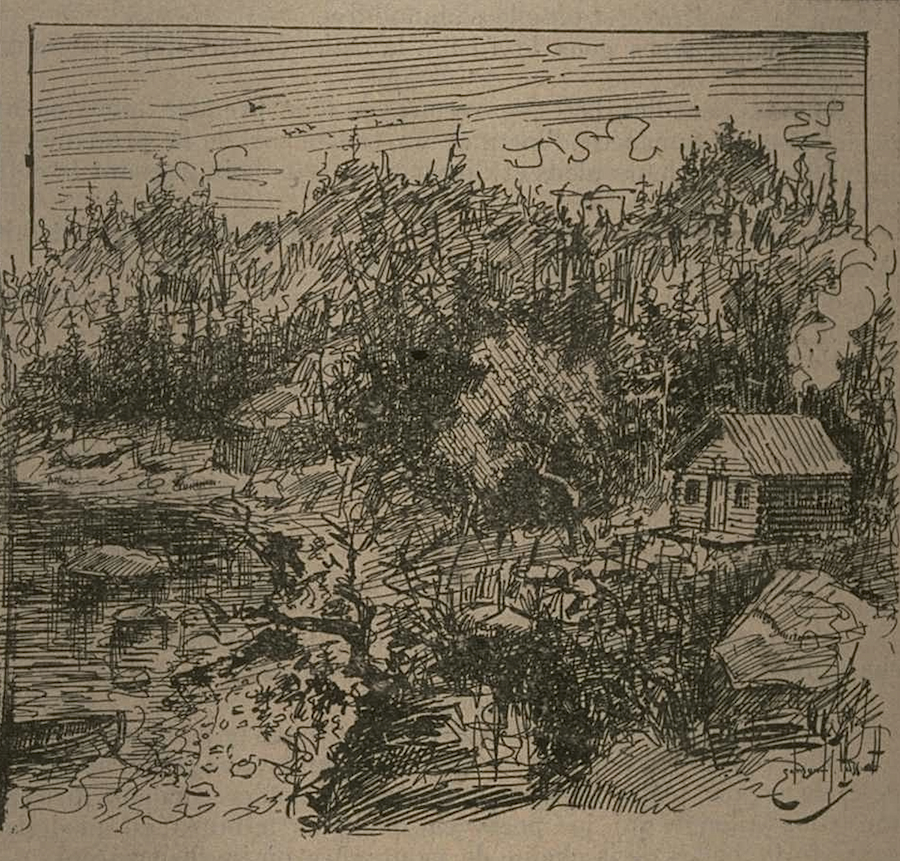 La baie de Kécarpoui, en Basse-Côte-Nord, 1897. Gravure parue dans Le Monde illustré. vol. 13 no 670 (6 mars 1897). p. 715. Source : BAnQ. collection numérique d'illustrations anciennes Droit d'auteur : Domaine public